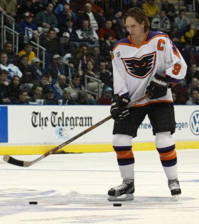 Photo: James Baker/AHL